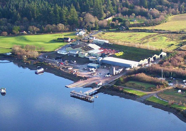 The Marine Resource Centre Aerial view of site from 500 feet